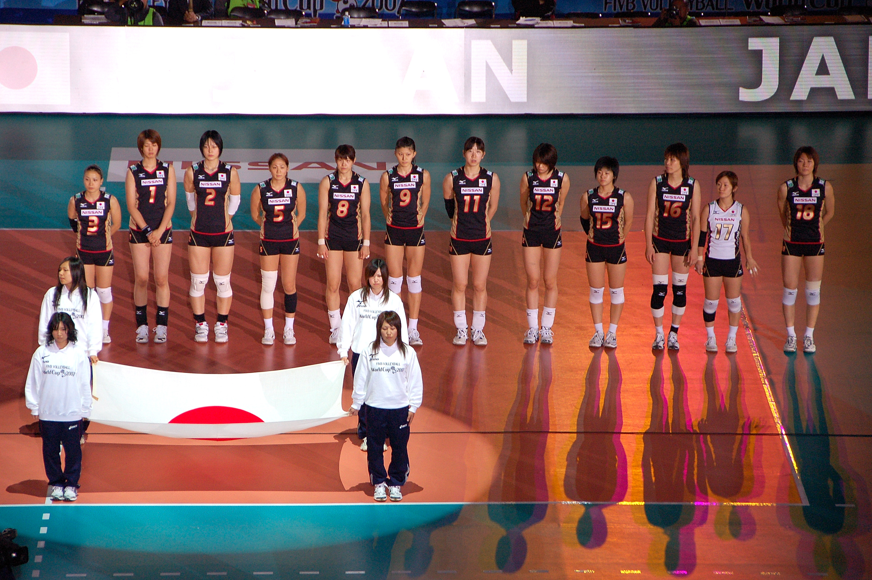 Nov 6, 2007 at 17:57 JST, Kadoma/Osaka. The national anthem of Japan being played before an event.